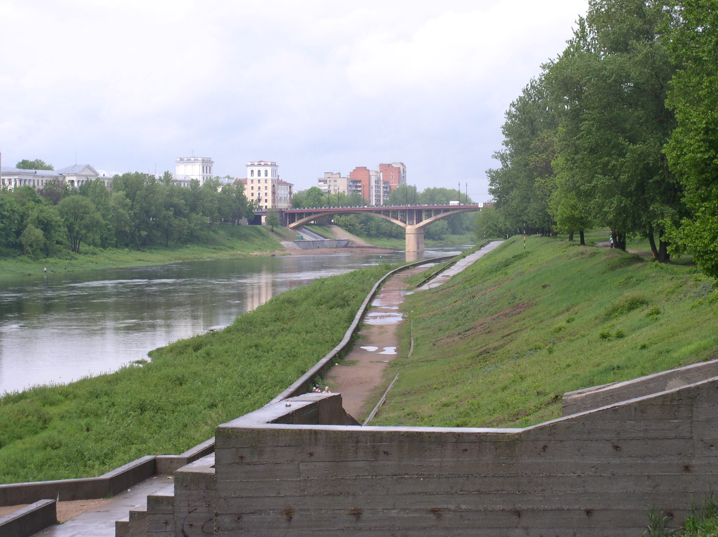 Kirov bridge over Dzvina. Vitsebsk, Belarus.